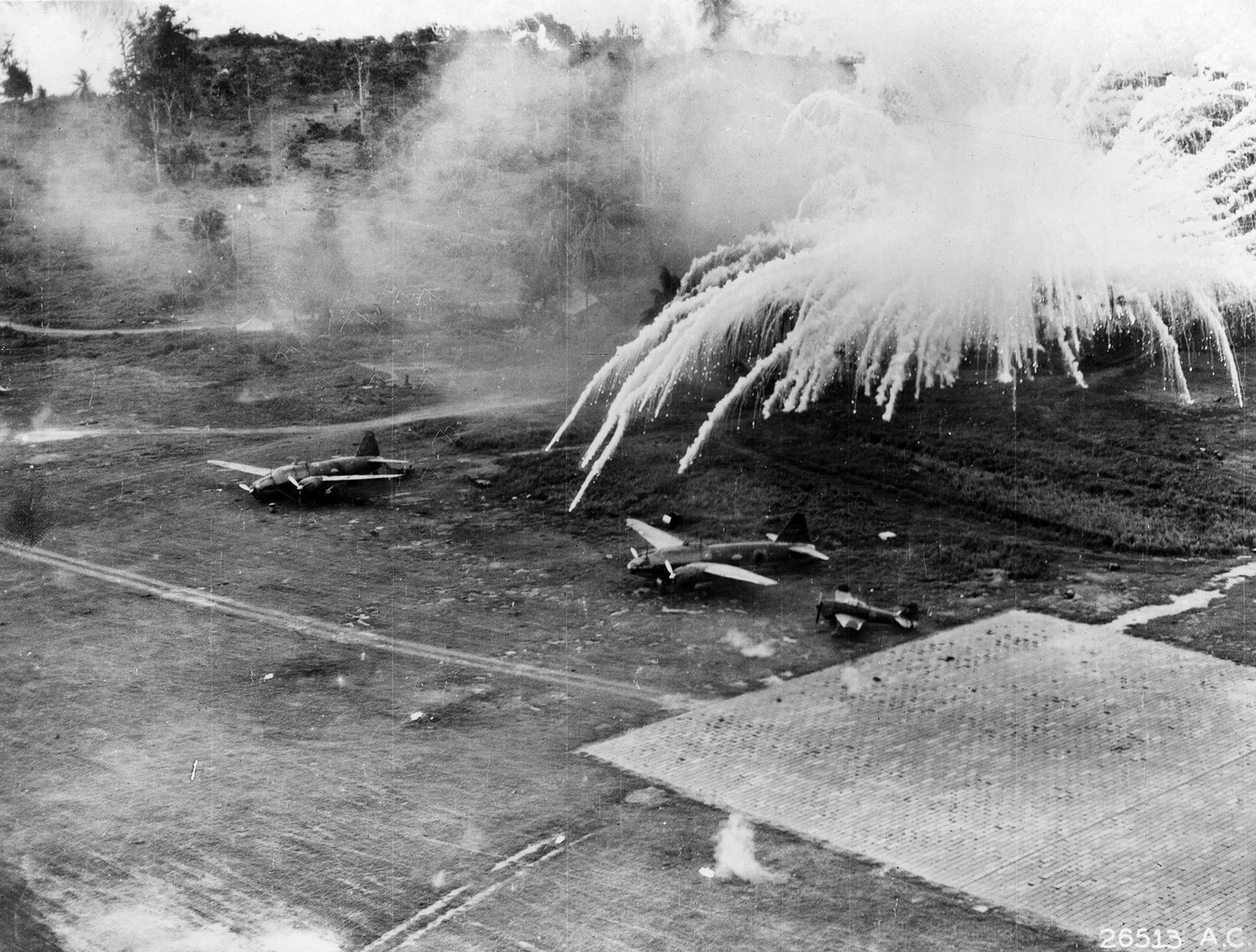 The result of phosphorus bombs and how they worked on a Mitsubishi G4M2 Betty and a Mitsubishi A6M3 Zeke on Lakunai Field during the attack at Rabaul.